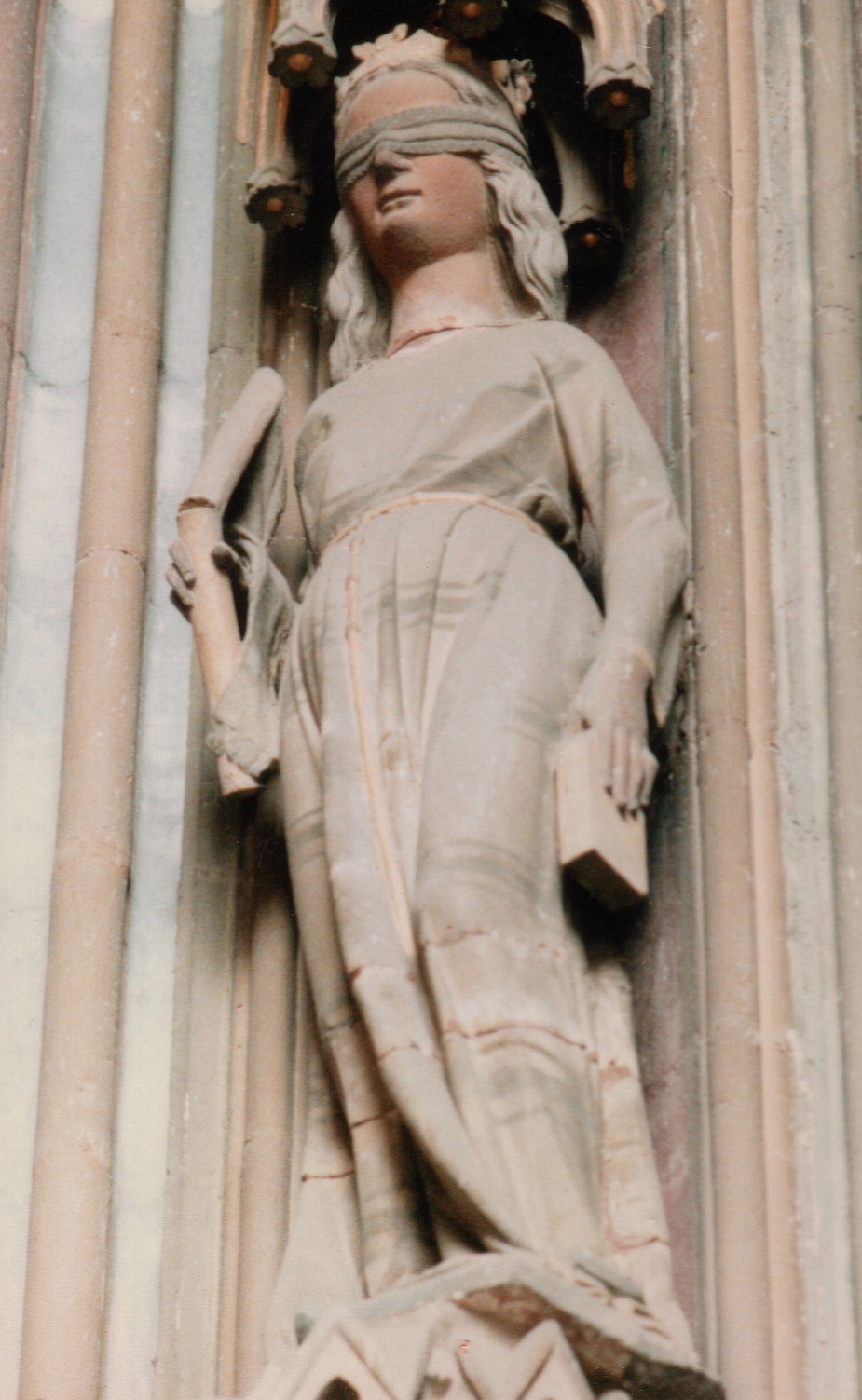 Synagogue, depicted as a woman with eyes blindfolded holding the broken Law, stands across from Church at a portal to Freiburger Münster in Germany